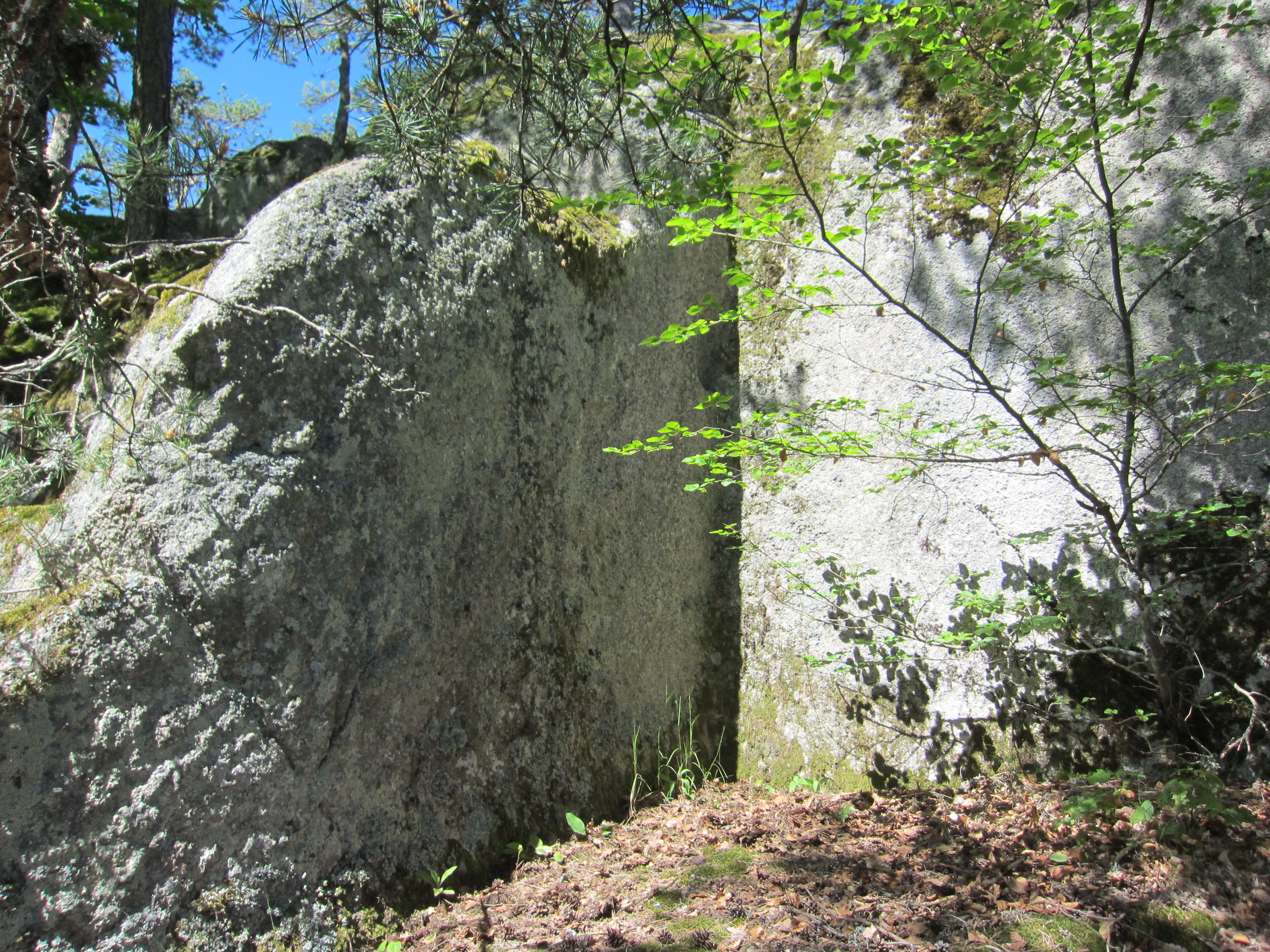 rock chamber